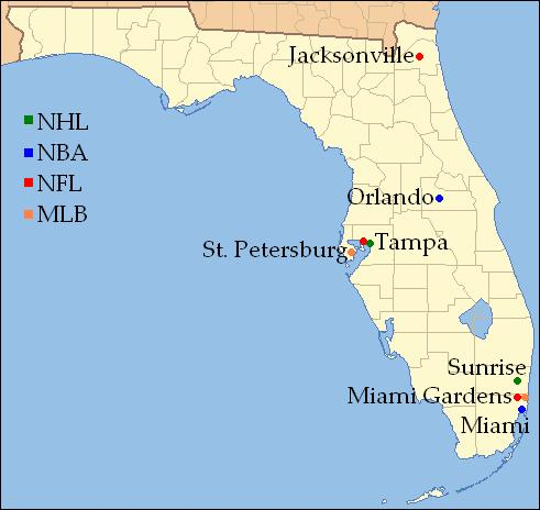 Major Sportteams in Florida